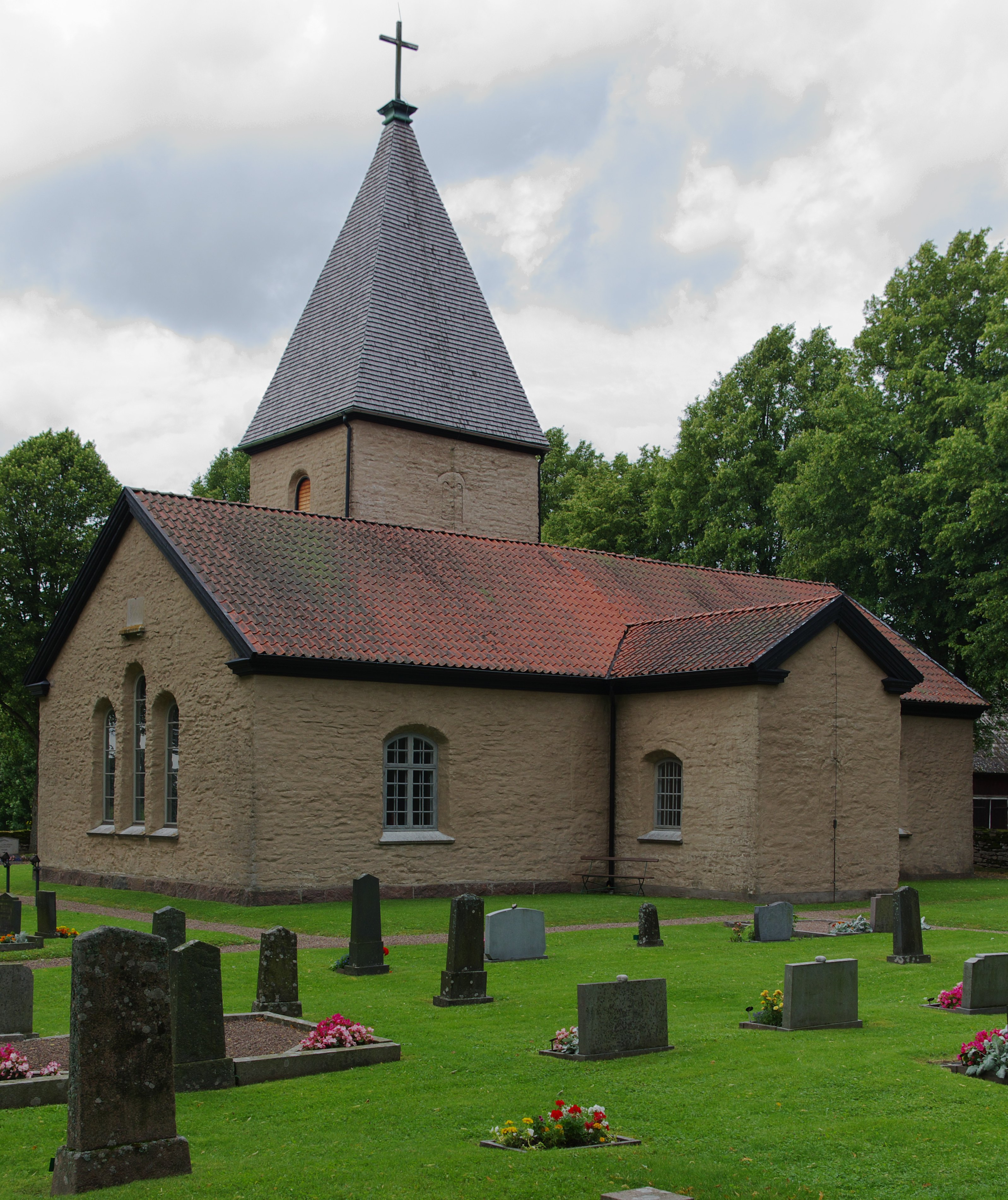 Öglunda kyrka (swedish:Öglunda church) in Valle hundred in Västergötland and Skara municipality in Västragötaland county, Sweden.